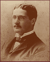 James Loeb as a young man, perhaps during his student days at Harvard College